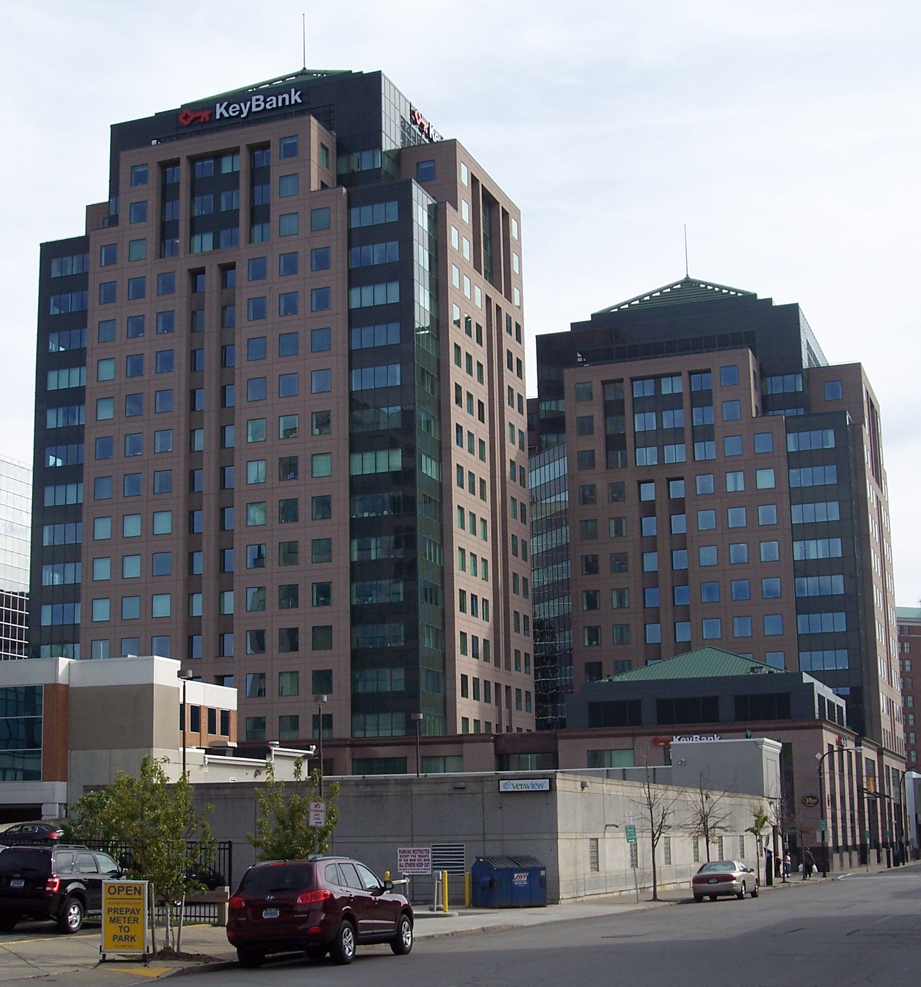 Key Center North & South Towers, 50 Fountain Plaza, Buffalo NY (Erie County) United States